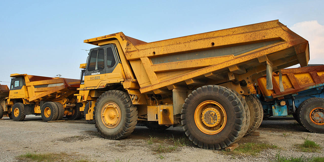 Komatsu off-road dump truck HD325